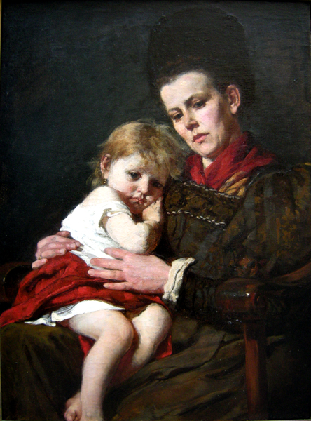 Countess Maria Von Kalckkeurth - Portrait of Princess Maria Theresia von Hohenzollernwith her child